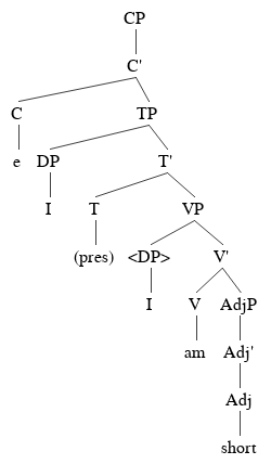 This tree shows the basic sentence structure of an English sentence. English is a configurational language and this is shown by the rigid phrase structure within the tree.